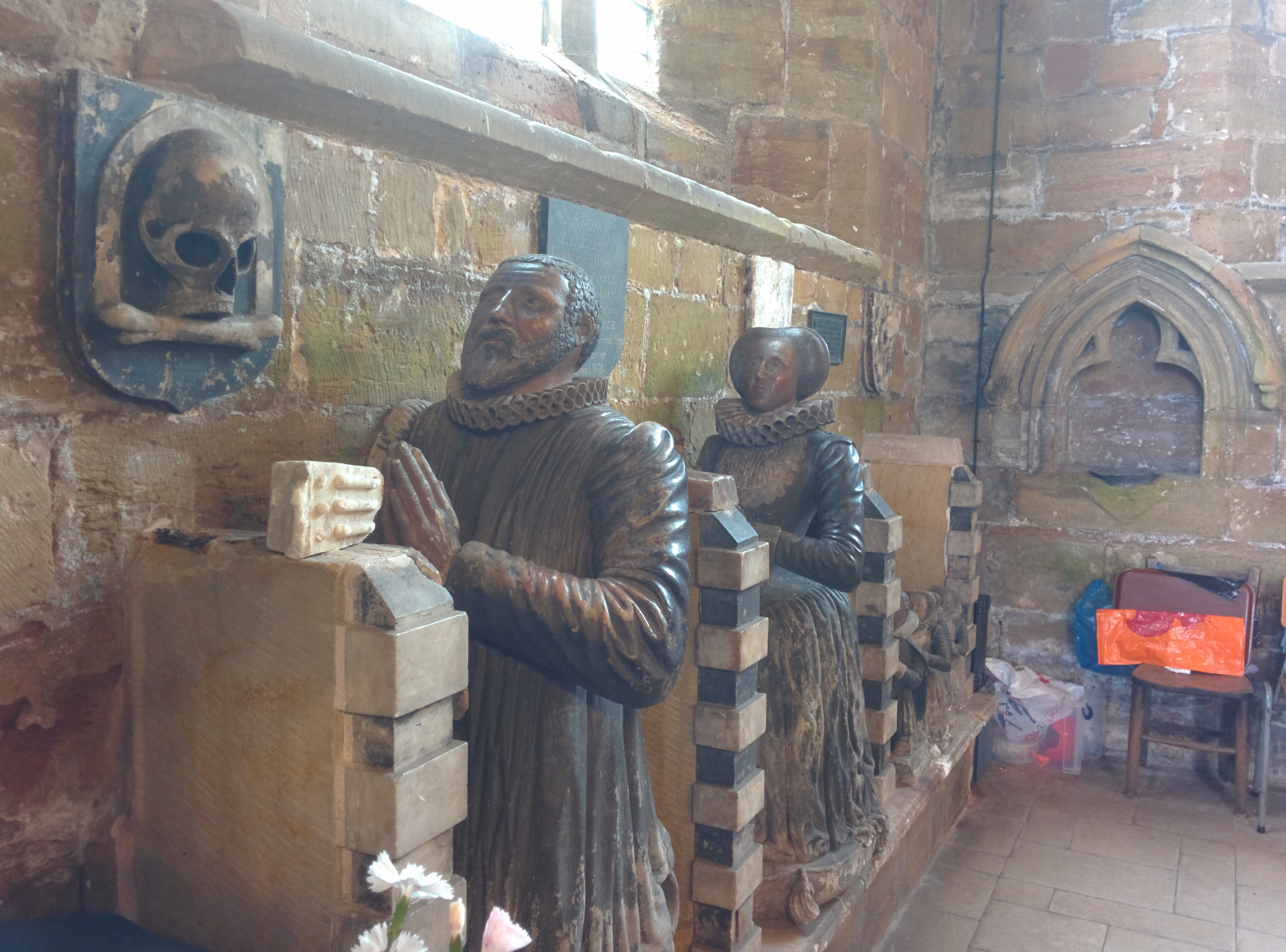 Richard Sale memorial at St Mary the Virgin's Church, Weston-on-Trent is a Grade I listed[ parish church in the Church of England in Weston-on-Trent, Derbyshire